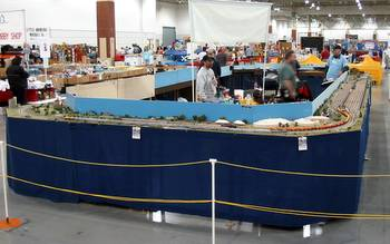 An NTrak layout setup for operation at Trainfest in Milwaukee, Wisconsin.